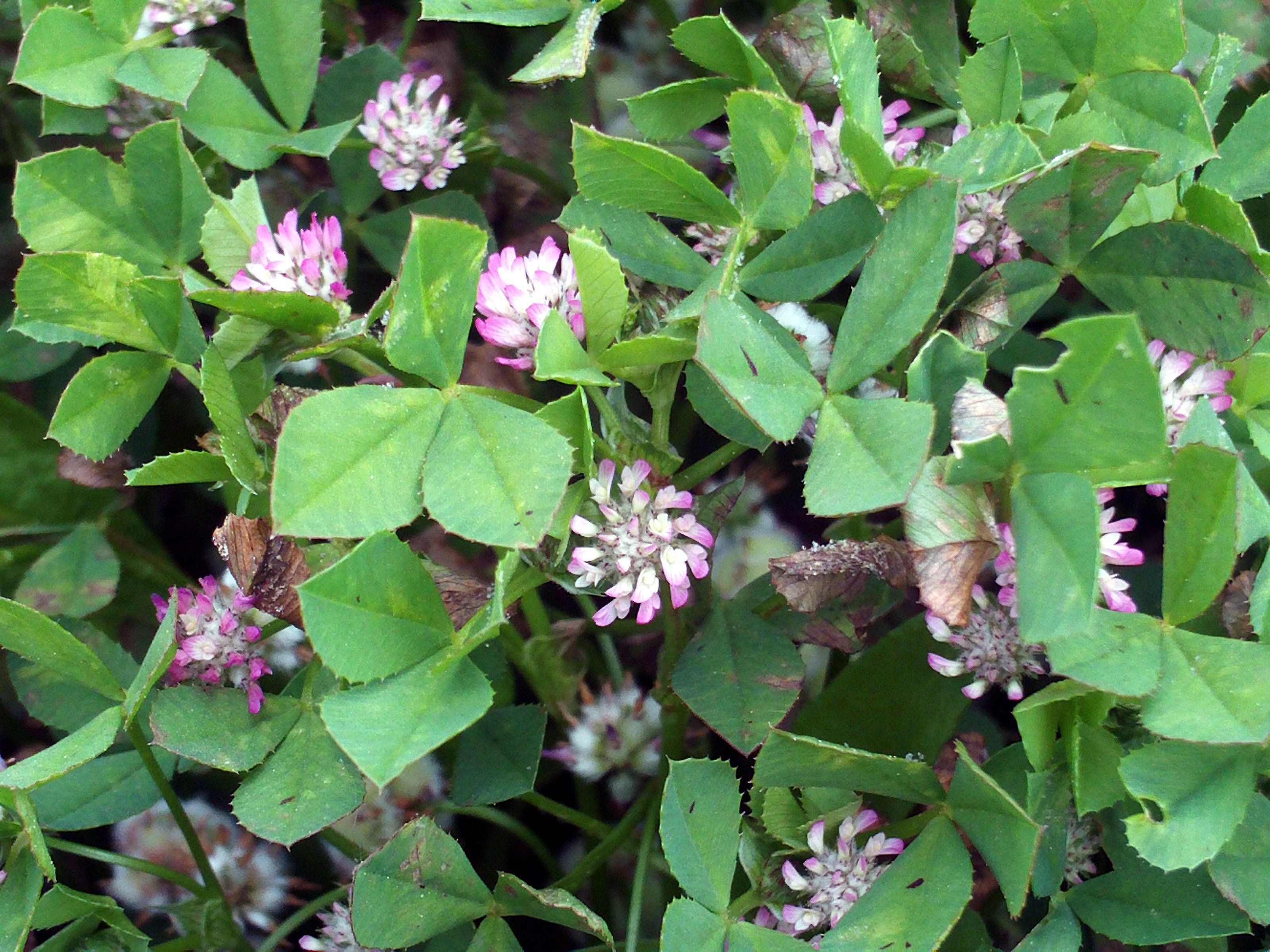 Trifolium fragiferum flowers and leaves Campo de Calatrava, Spain